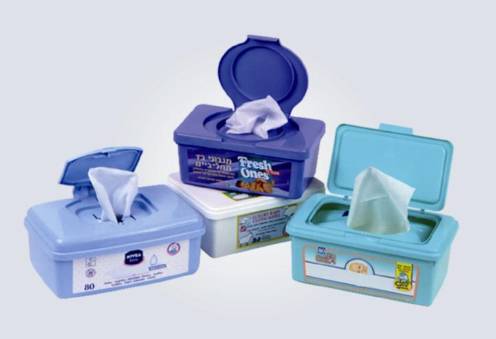 spunlaid application